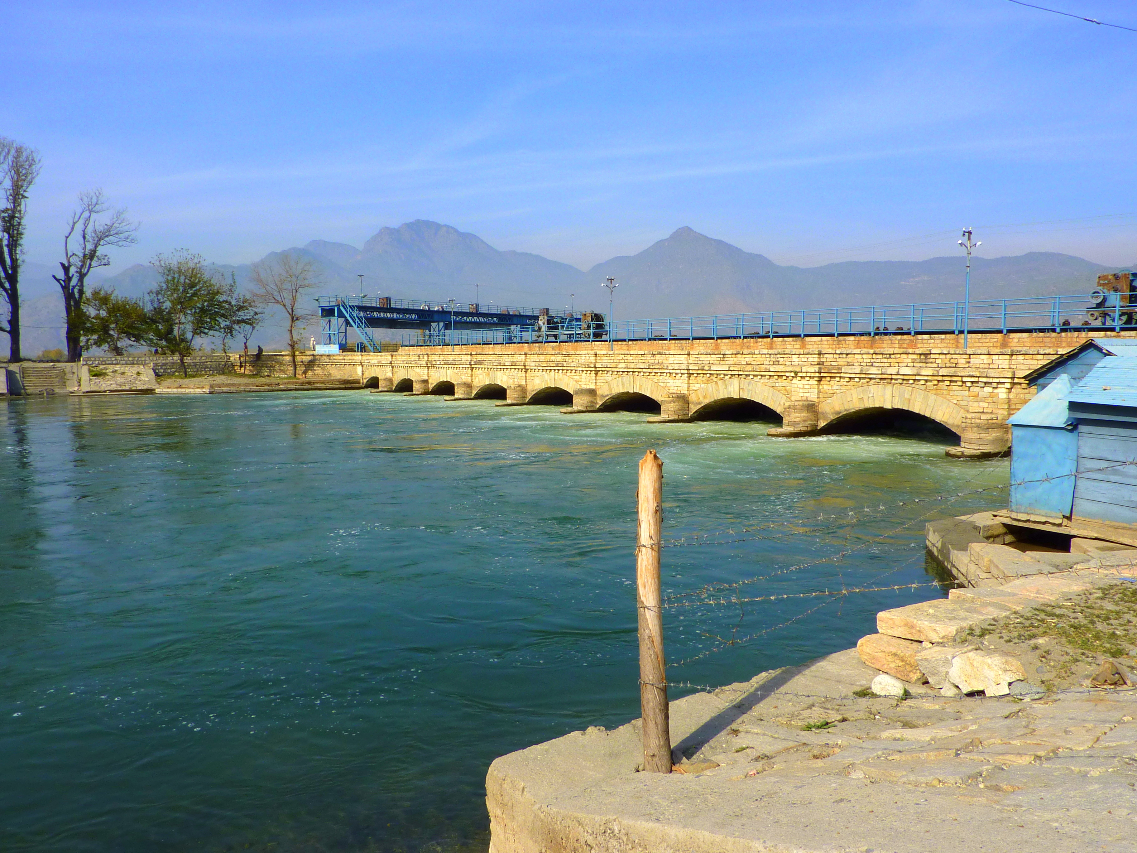 Amandara Head Works (Batkhela Water Canal Bridge) [Photography by Dr.Ibrahim]